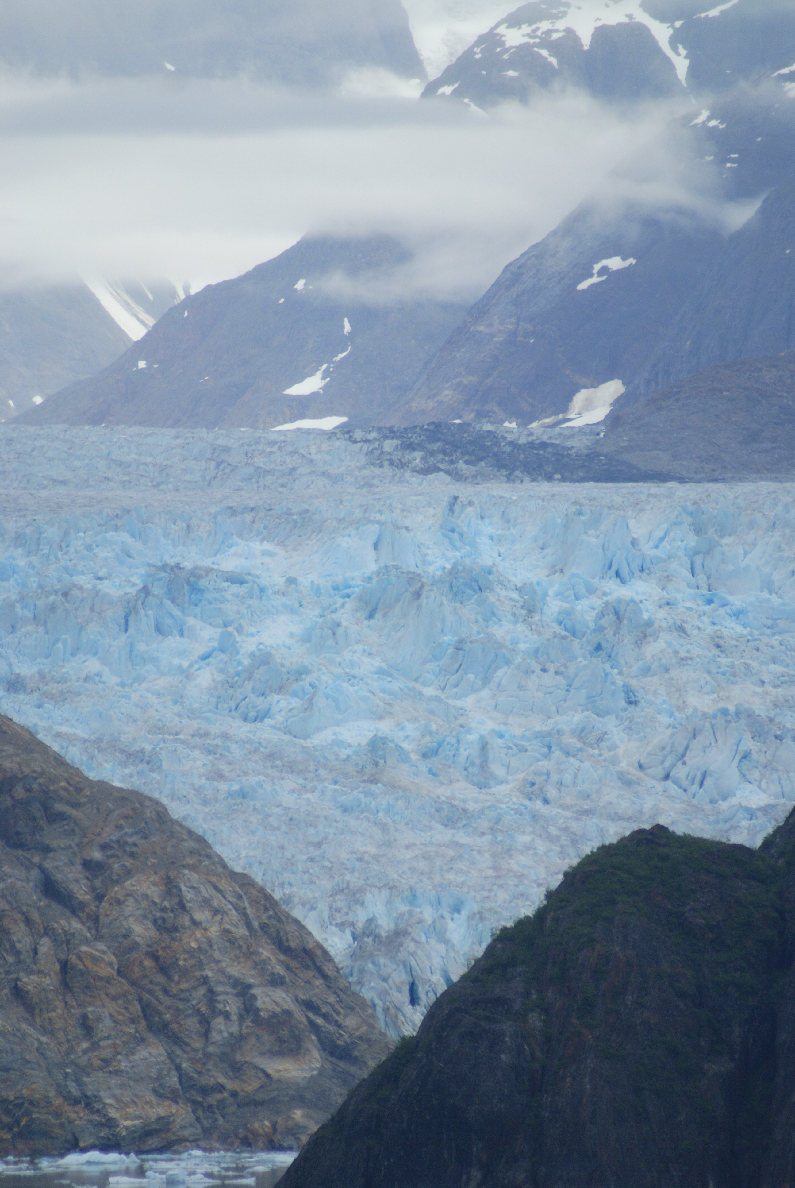 Tracy Arm Fjord Sawyer Glacier